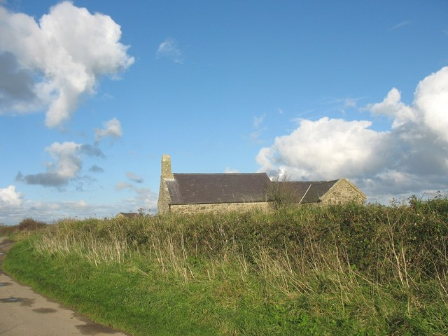 Eglwys y Santes Fair/St Mary's Church, Tal-y-llyn Tal-y-llyn means "head of the lake" - St Mary overlooks Llyn Padrig (Patrick's Lake) This Grade I building is now cared for by the Friends of Friendless Churches. At one time it was one of five chapels of ease in the parish of Llanbeulan.